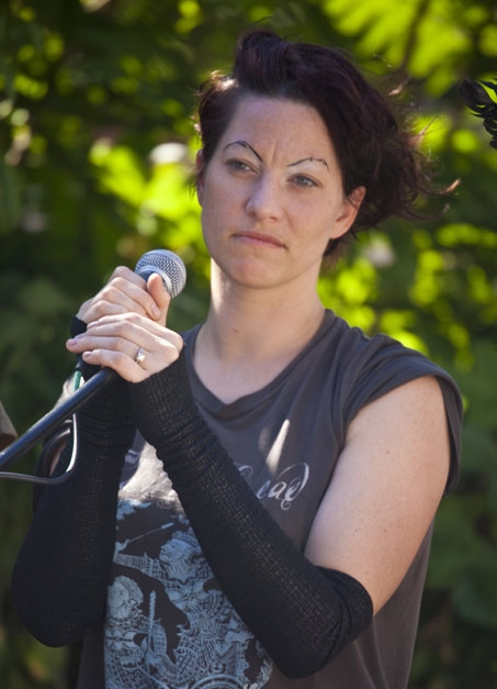 Amanda Palmer singing at a barbeque in St. Kilda, Australia in March 2011. Cropped from original.